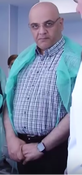 Raed Arafat